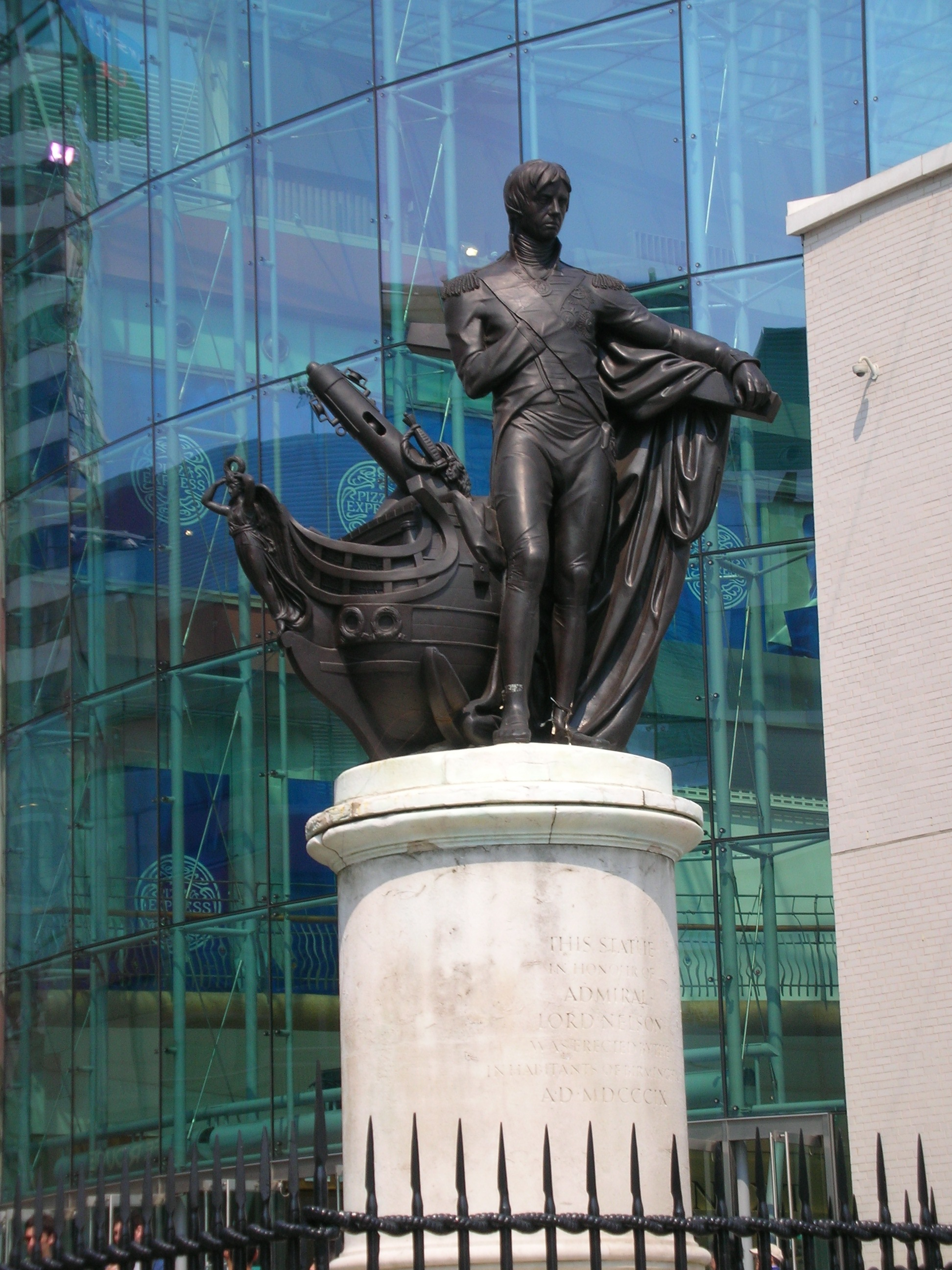 Statue of Horatio Nelson in the Bull Ring, Birmingham, England. Photographed by me 10 May 2006.